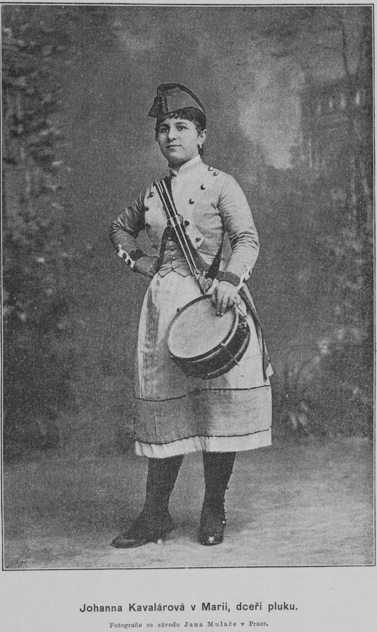 Portrait of Hana Cavallarová (1863-1946), captioned as „Johanna Kavalárová“, Czech opera singer, in the role of Marie in La fille du régiment by Gaetano Donizetti.